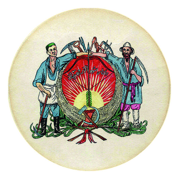 Emblem of the Tatar ASSR, from 1920-1926, by artist Baki Urmance.